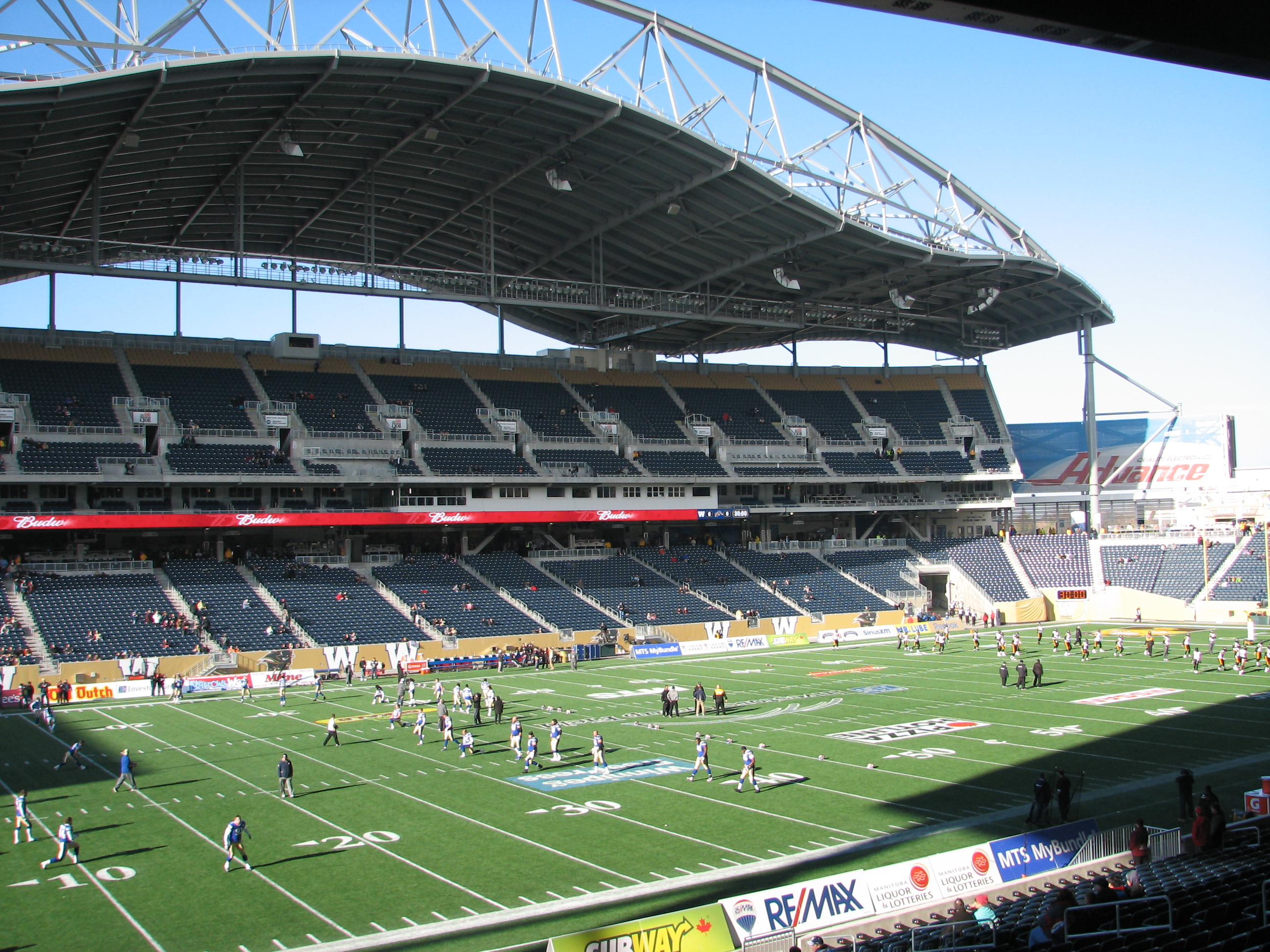 Investors Group Field, photographed on November 2, 2013, during the last regular season game for both the Winnipeg Blue Bombers and the Hamilton Tiger-Cats of the 2013 CFL Season. The final score was Hamilton 37, Winnipeg 7.